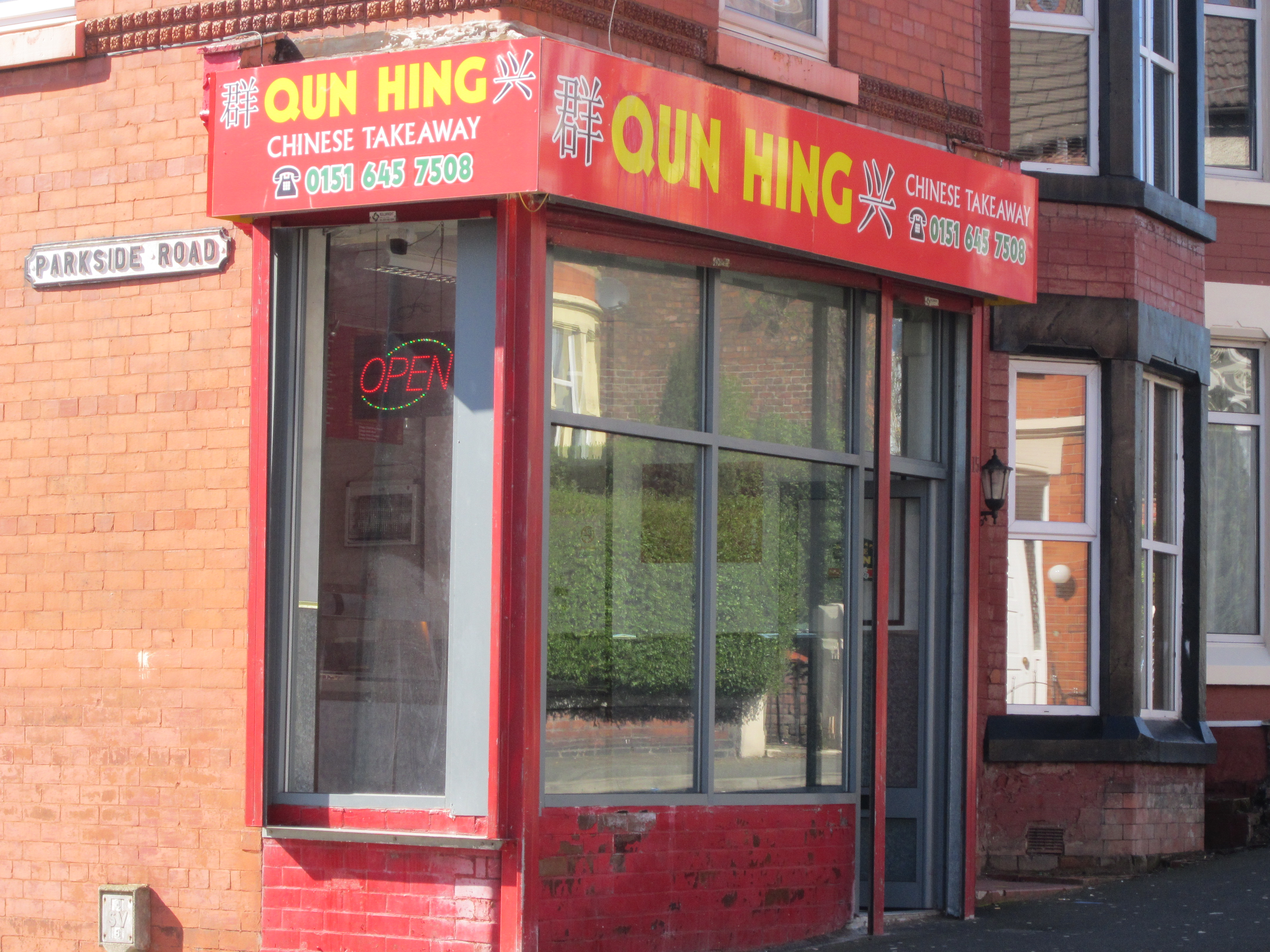 Qun Hing Chinese Takeaway on the corner of Downham Road and Parkside Road, Tranmere, Birkenhead, Merseyside, England.